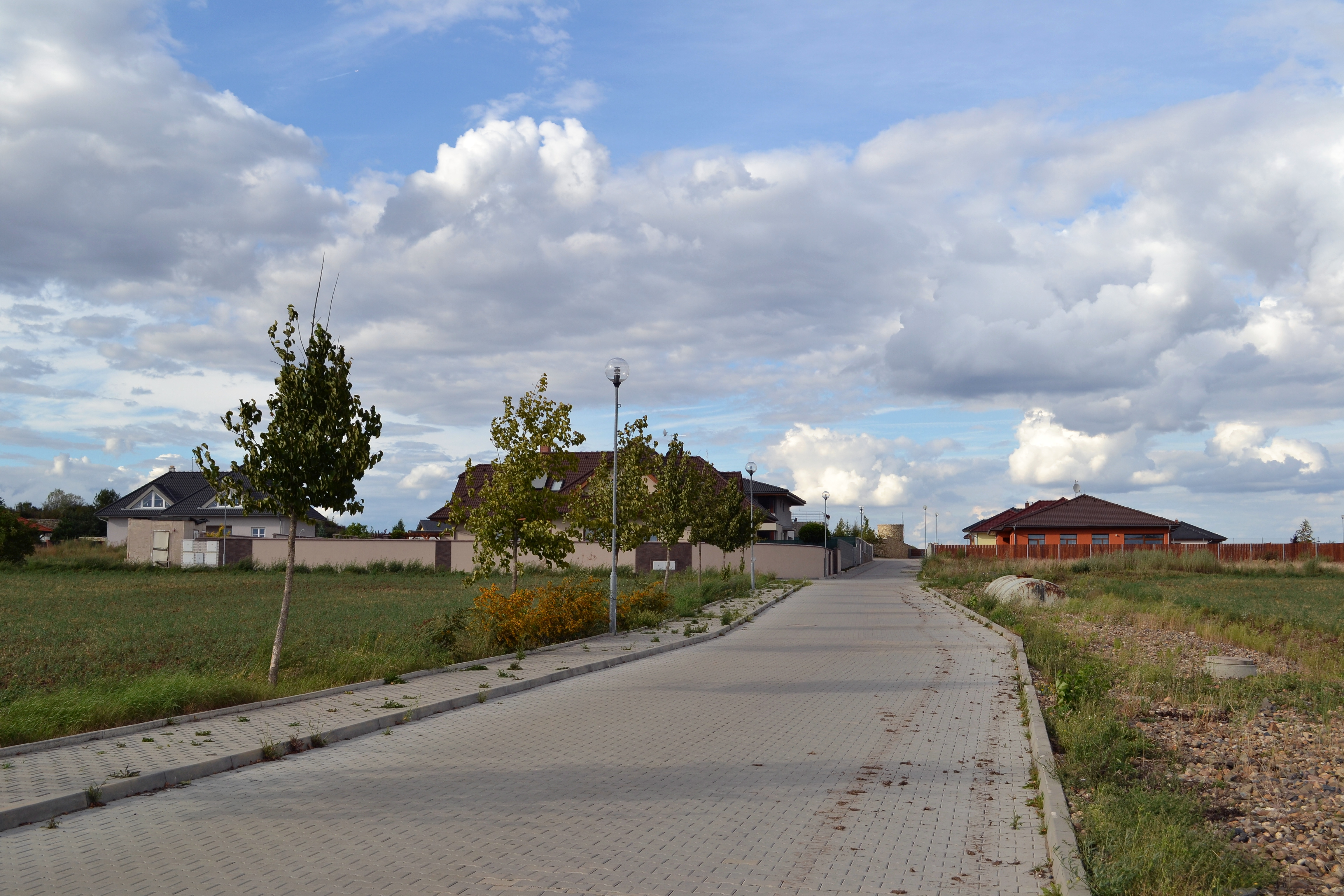 New houses in the village Noutonice, part of village Lichoceves, Central Bohemian Region, Czech Republic.